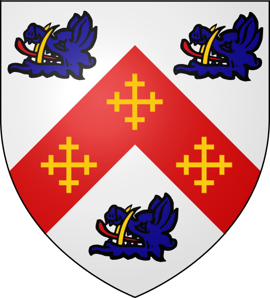 Coat of arms of the MacDermot.